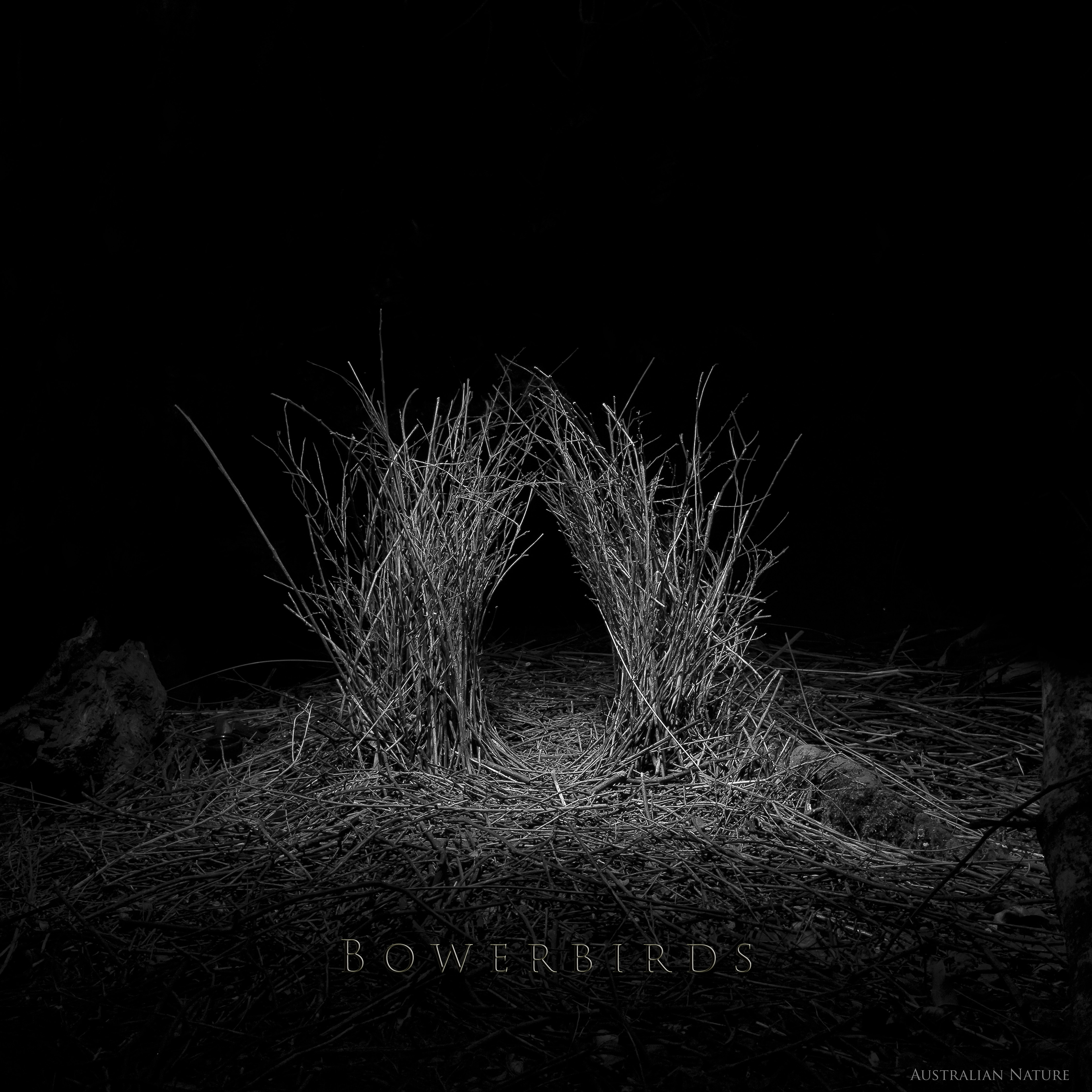 Avenue style bower built by the Satin Bowerbird